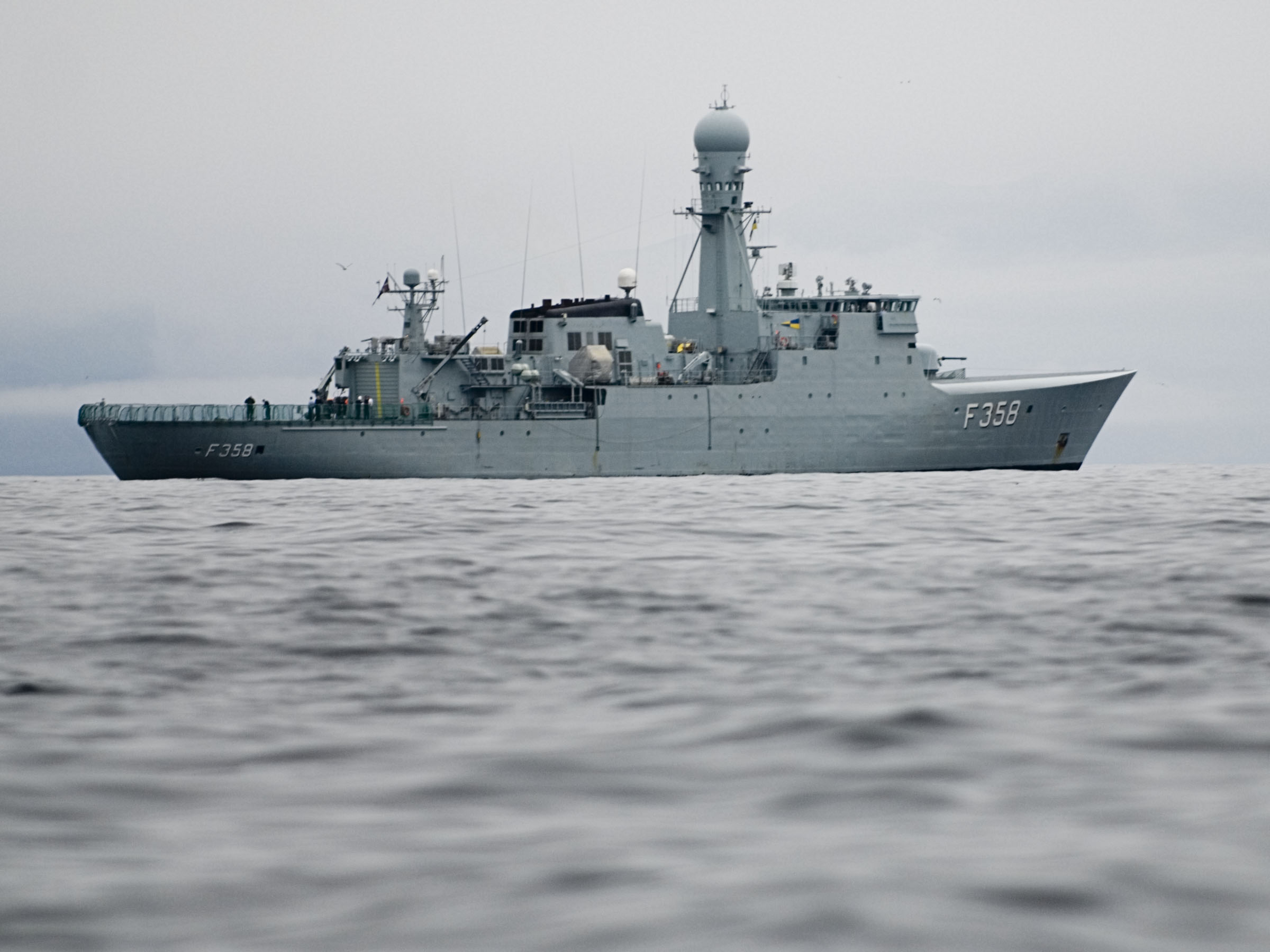 Danish naval vessel Triton